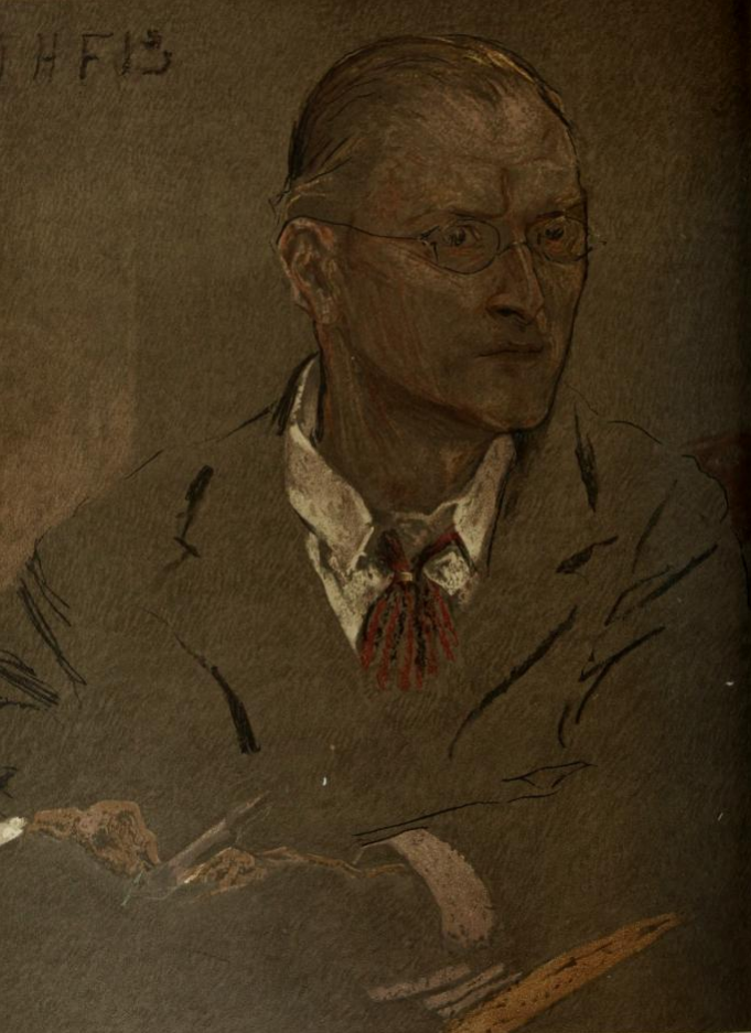 Charles Francis Annesley Voysey, after John Henry Frederick Bacon, printed in The Studio, vol. 24, issue 102.